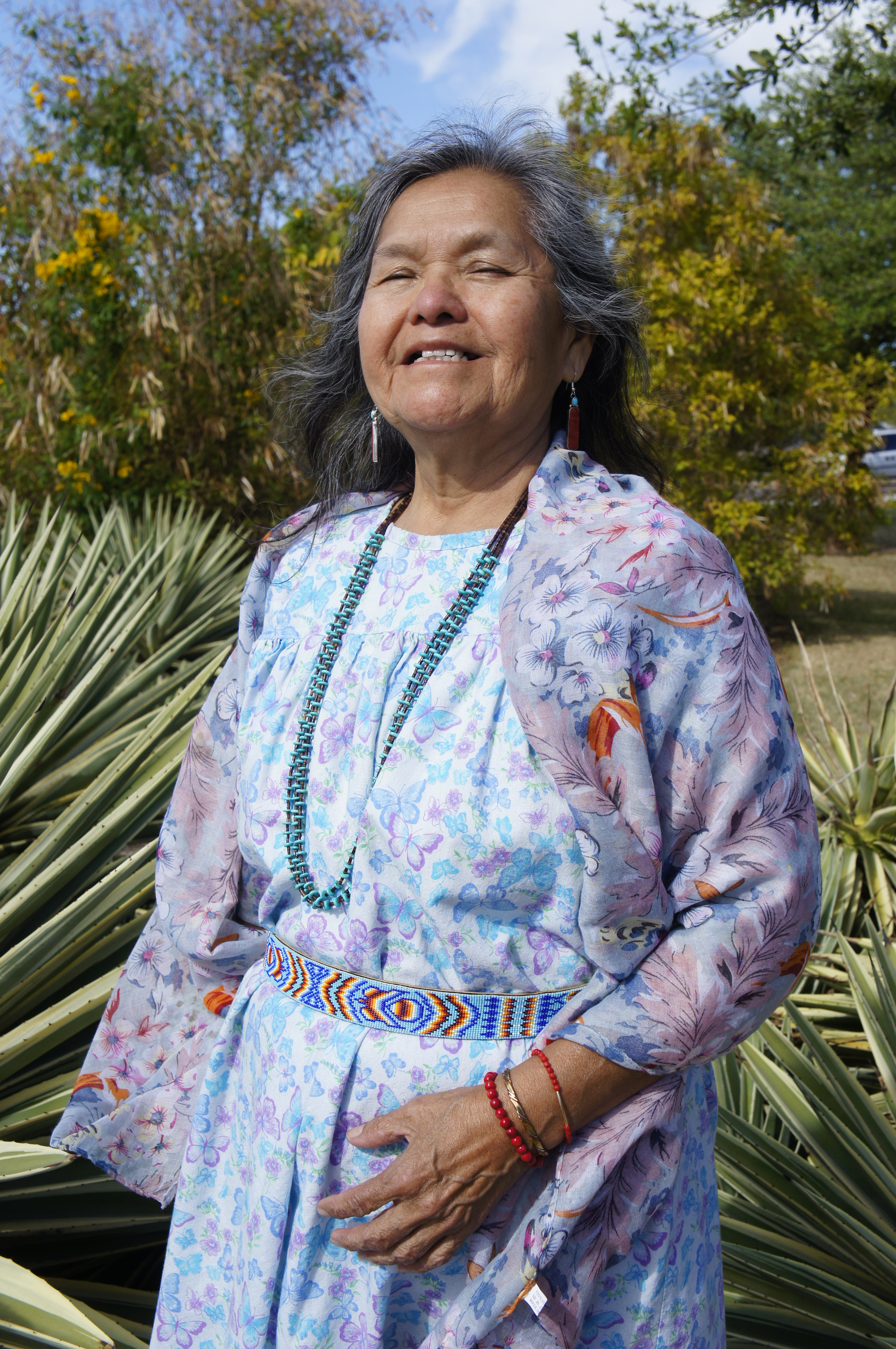 Mona Polacca at Mesa Community College 2017